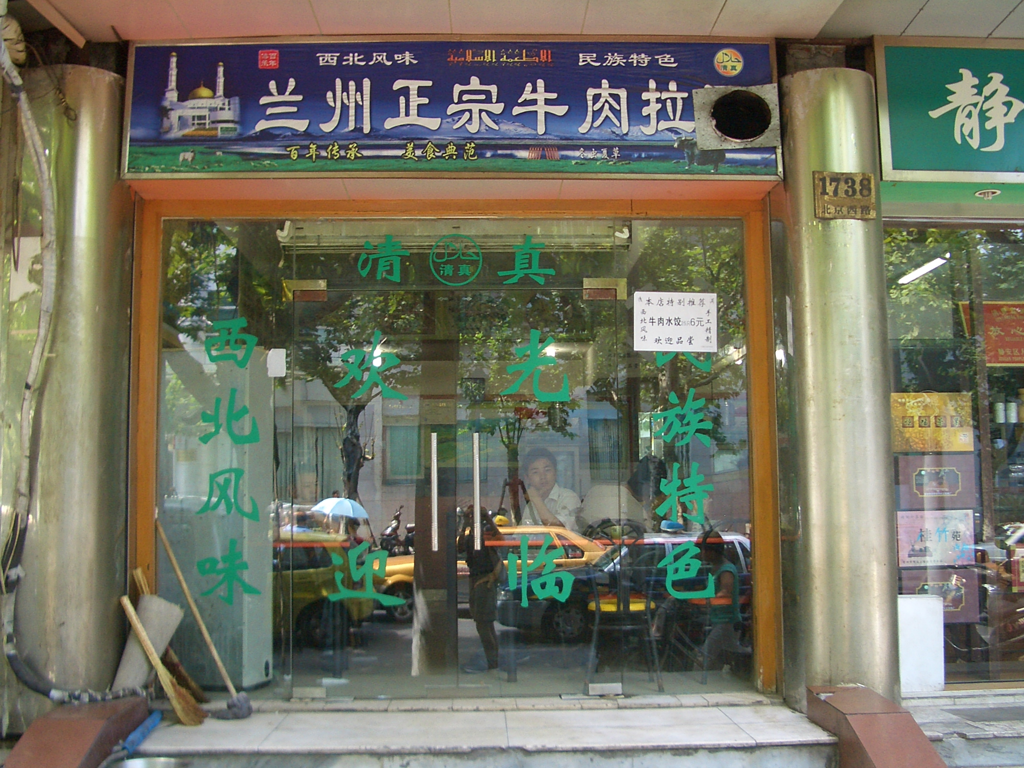 A Halal (清真) restaurant in downtown Shanghai, advertising "Authentic Lanzhou Beef Lamian (Noodle)" (兰州正宗牛肉拉面). Located in West Beijing St., a couple blocks north of West Nanjing St.